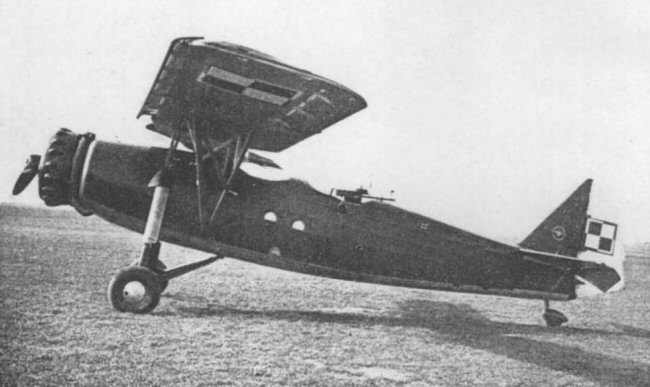 Polish army cooperation aircraft RWD 14b Czapla.